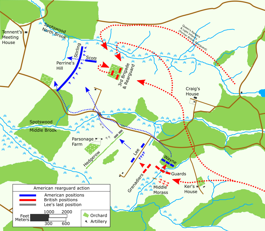 American rearguard action at the Battle of Monmouth